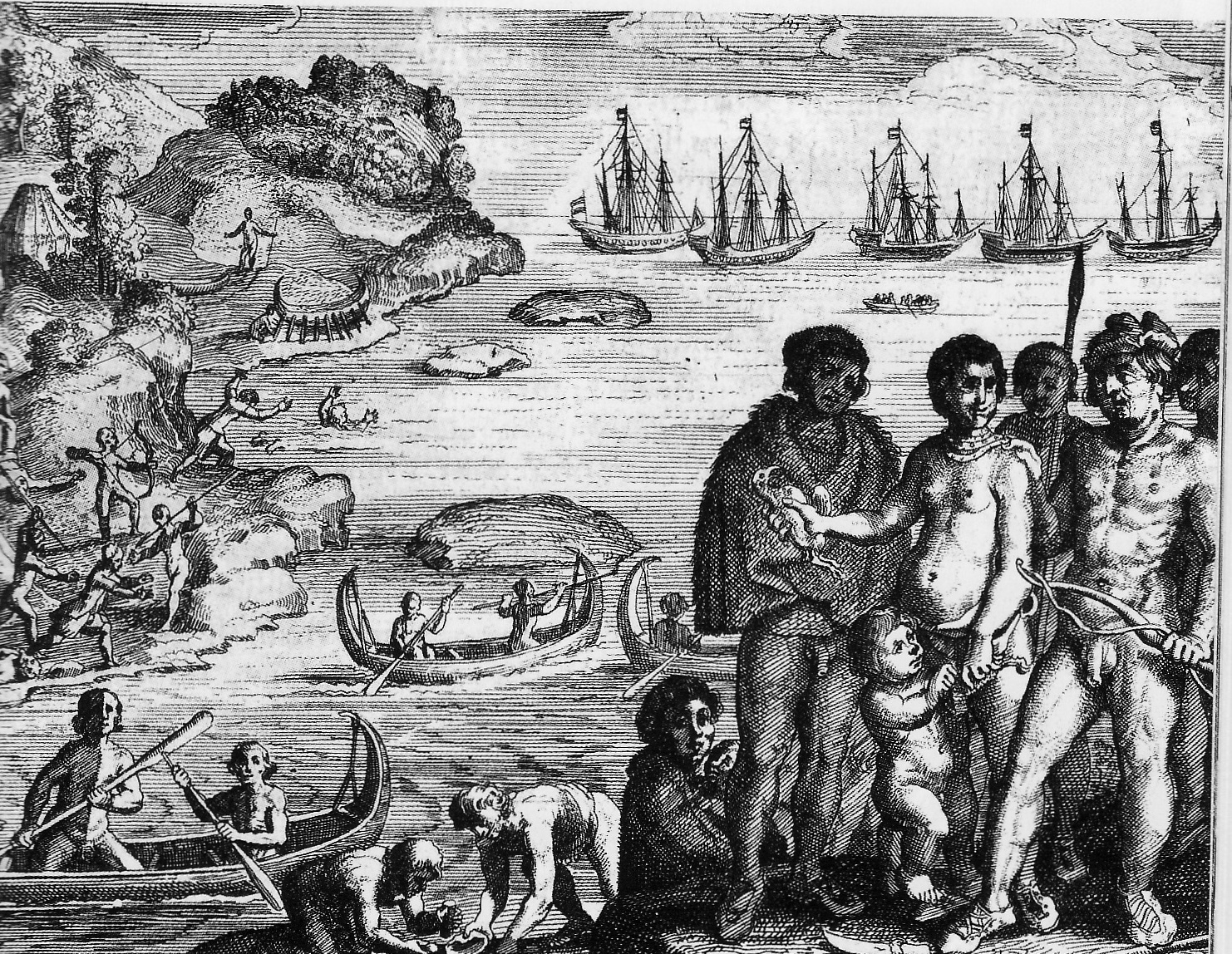 Expedition de Nassau - Jacques L'Hermite - Tierra del Fuego, 1624